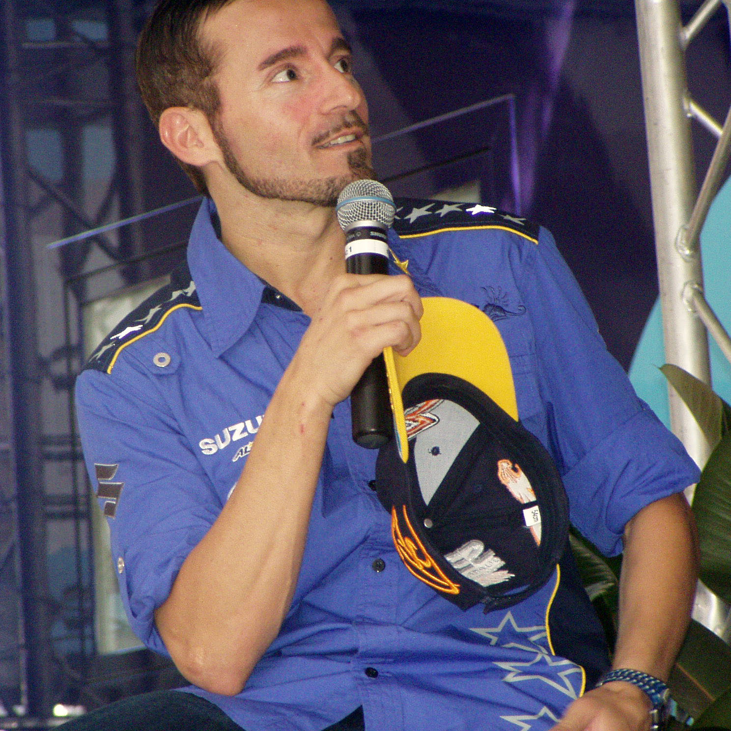 Italian motorcycle road racer Massimiliano "Max" Biaggi, 2007.